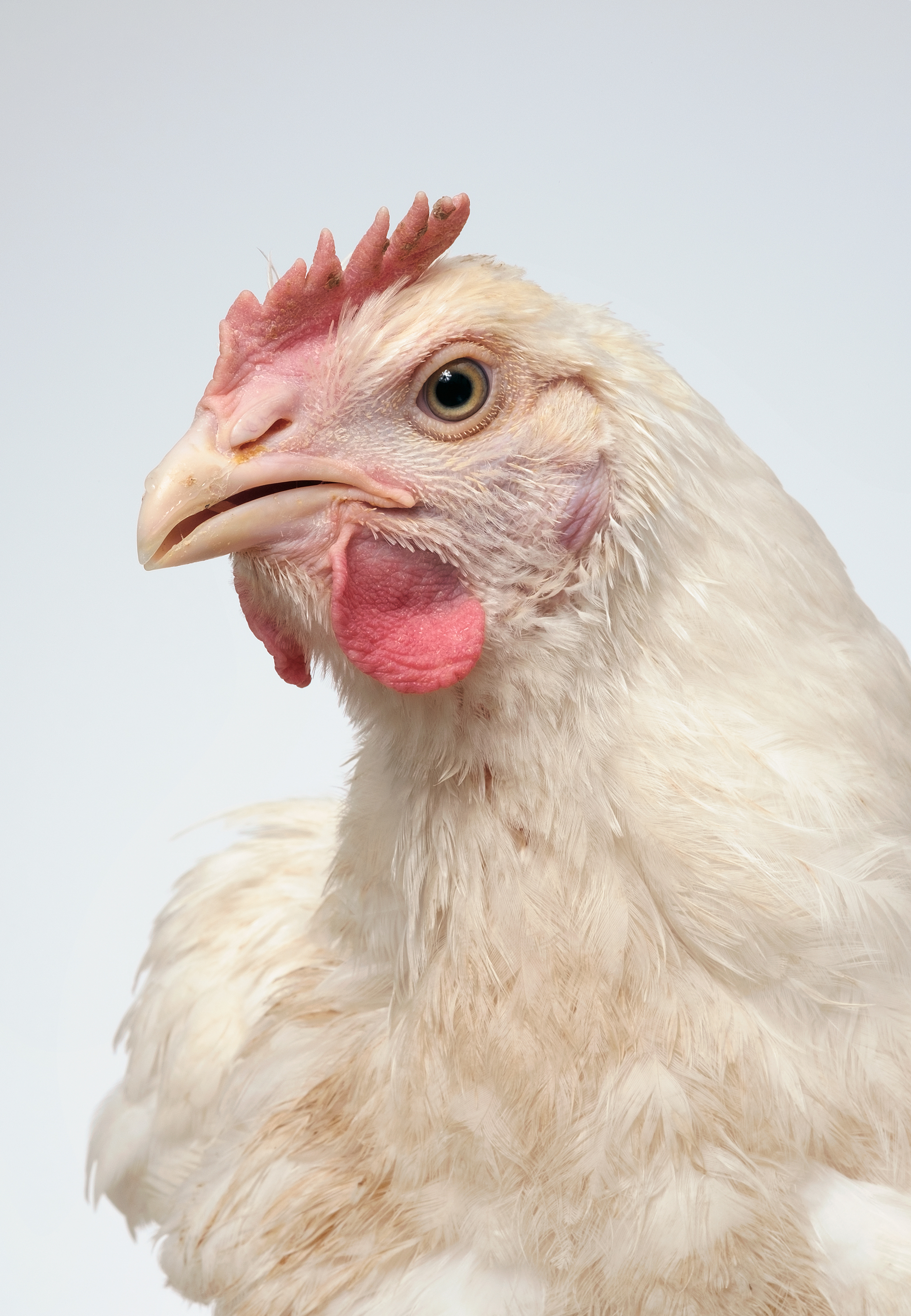 Heinrich Craniocervical Photo by Andreas Greiner & Theo Bitzer 2015.jpg